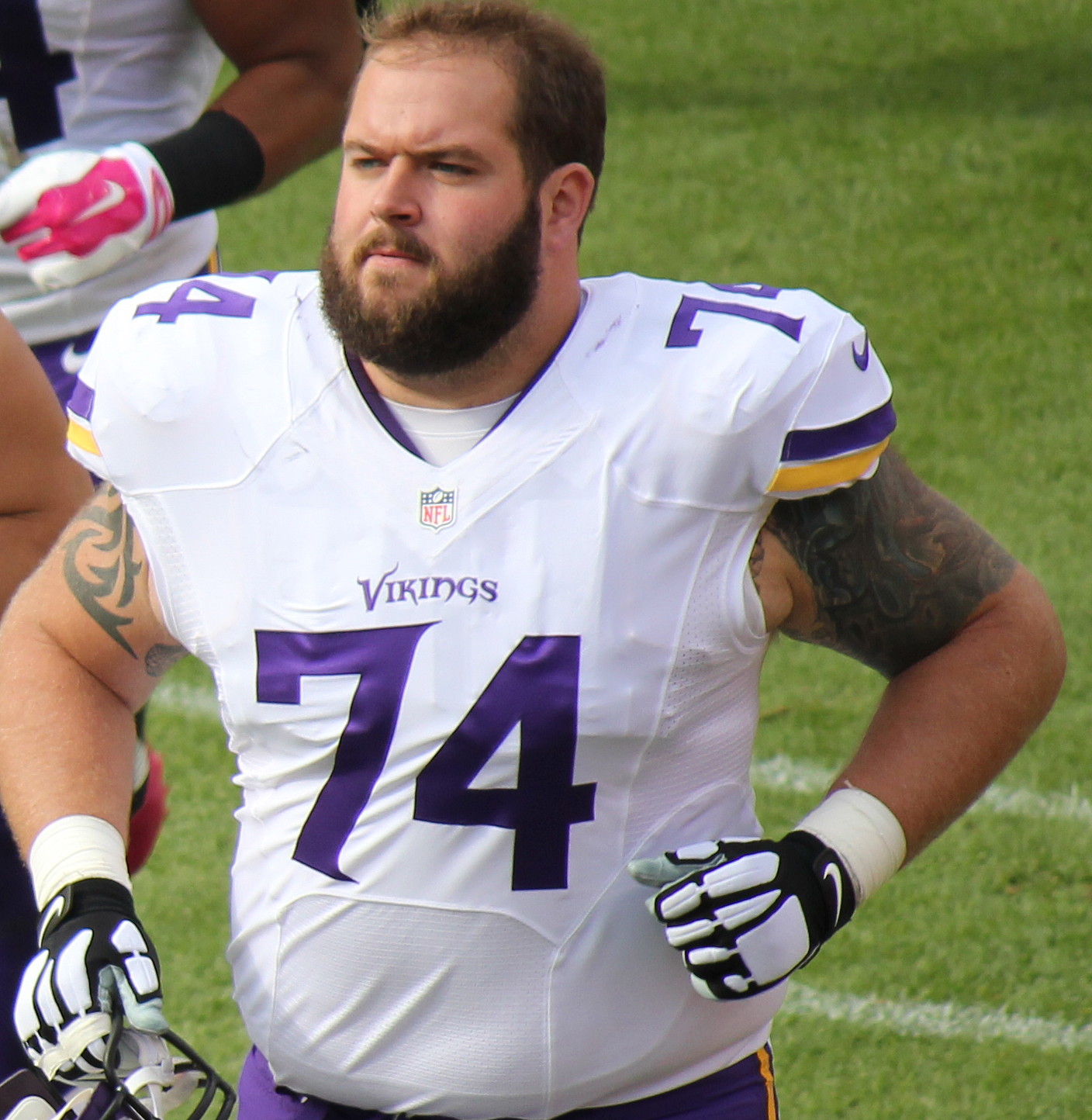 Austin Shepherd, a player on the National Football League.